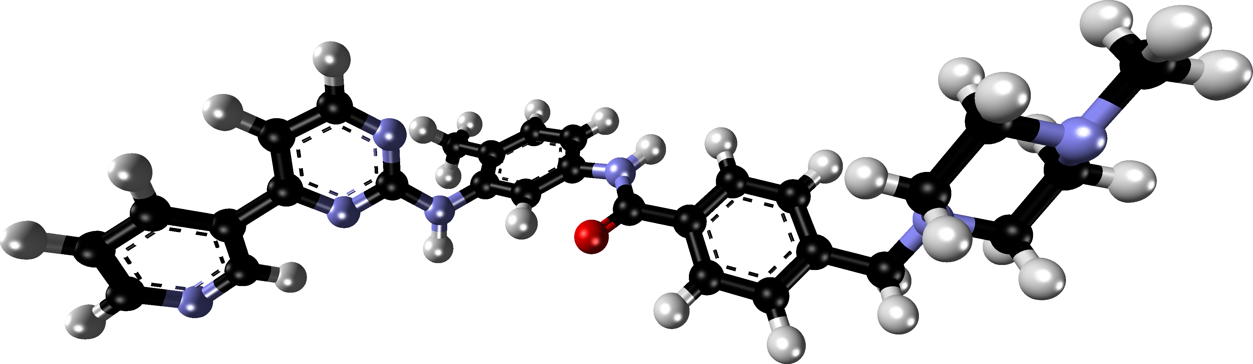 Structure of imatinib based on: Cowan-Jacob, SW; Fendrich, G; Floersheimer, A; Furet, P; Liebetanz, J; Rummel, G; Rheinberger, P; Centeleghe, M; Fabbro, D; Manley, PW (January 2007). "Structural biology contributions to the discovery of drugs to treat chronic myelogenous leukaemia.". Acta Crystallographica. Section D, Biological Crystallography 63 (Pt 1): 80–93. PMC 2483489. PMID 17164530.